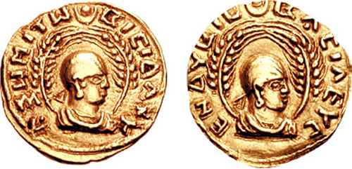 Coin of the Axumite king Endubis, arouns AD 290